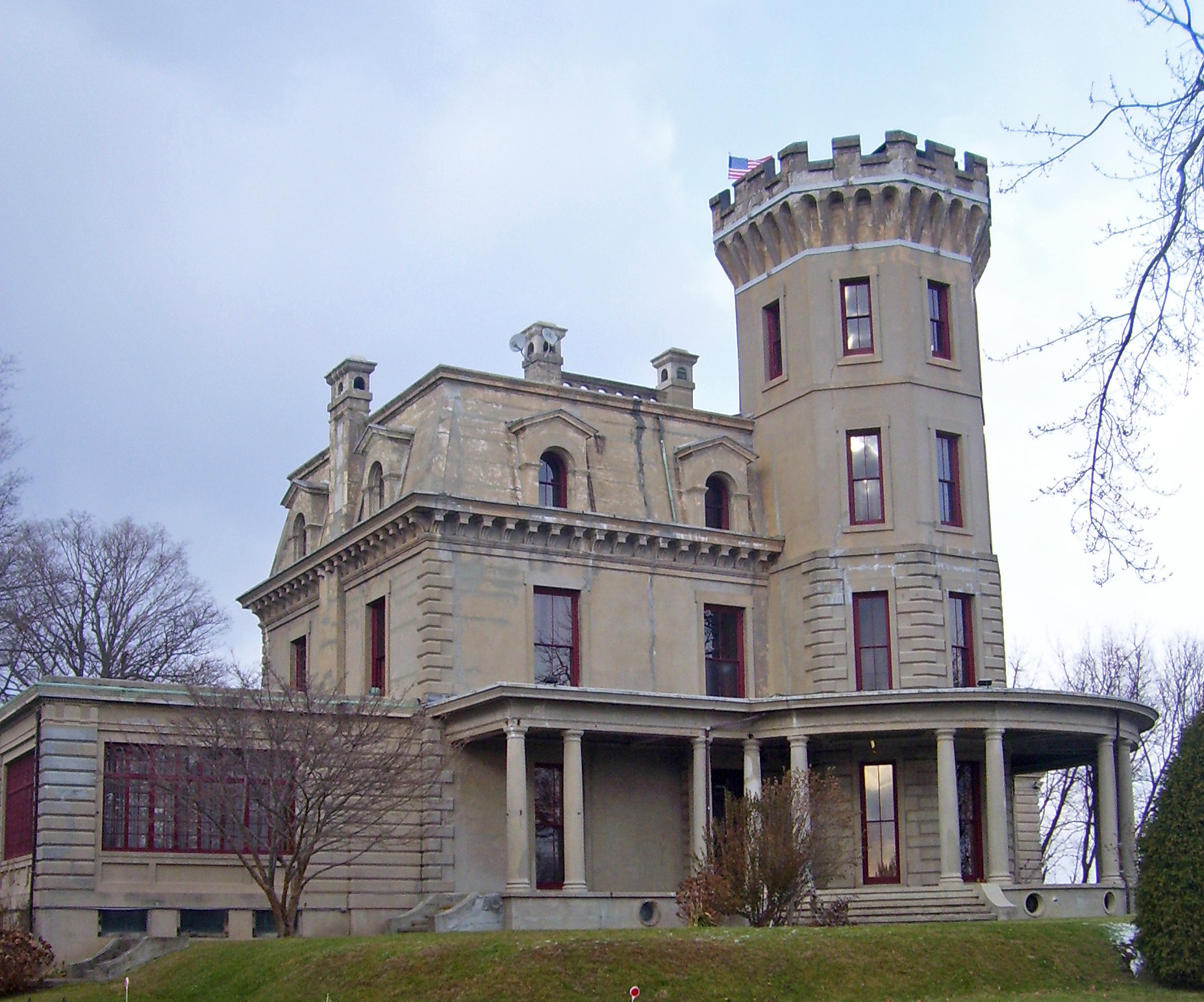 William E. Ward House, believed to be the first building in the United States built entirely of reinforced concrete, on the state line between Rye Brook, NY (the left window of the main block and the wing) and Greenwich, CT (the rest of the main block and tower), USA